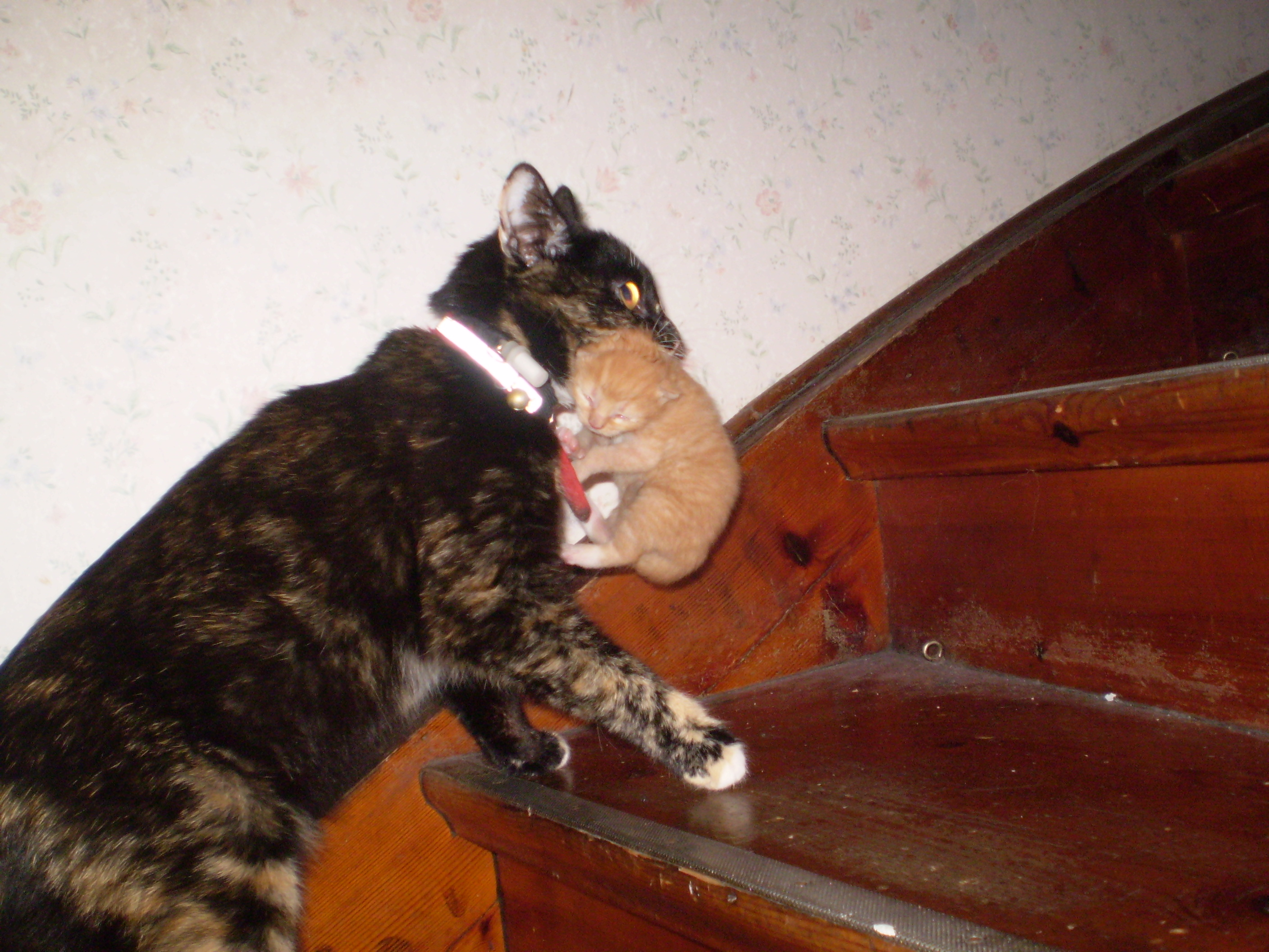 Tortoiseshell cat carrying her kitten up a flight of stairs. She grips the kitten's scruff in her teeth.